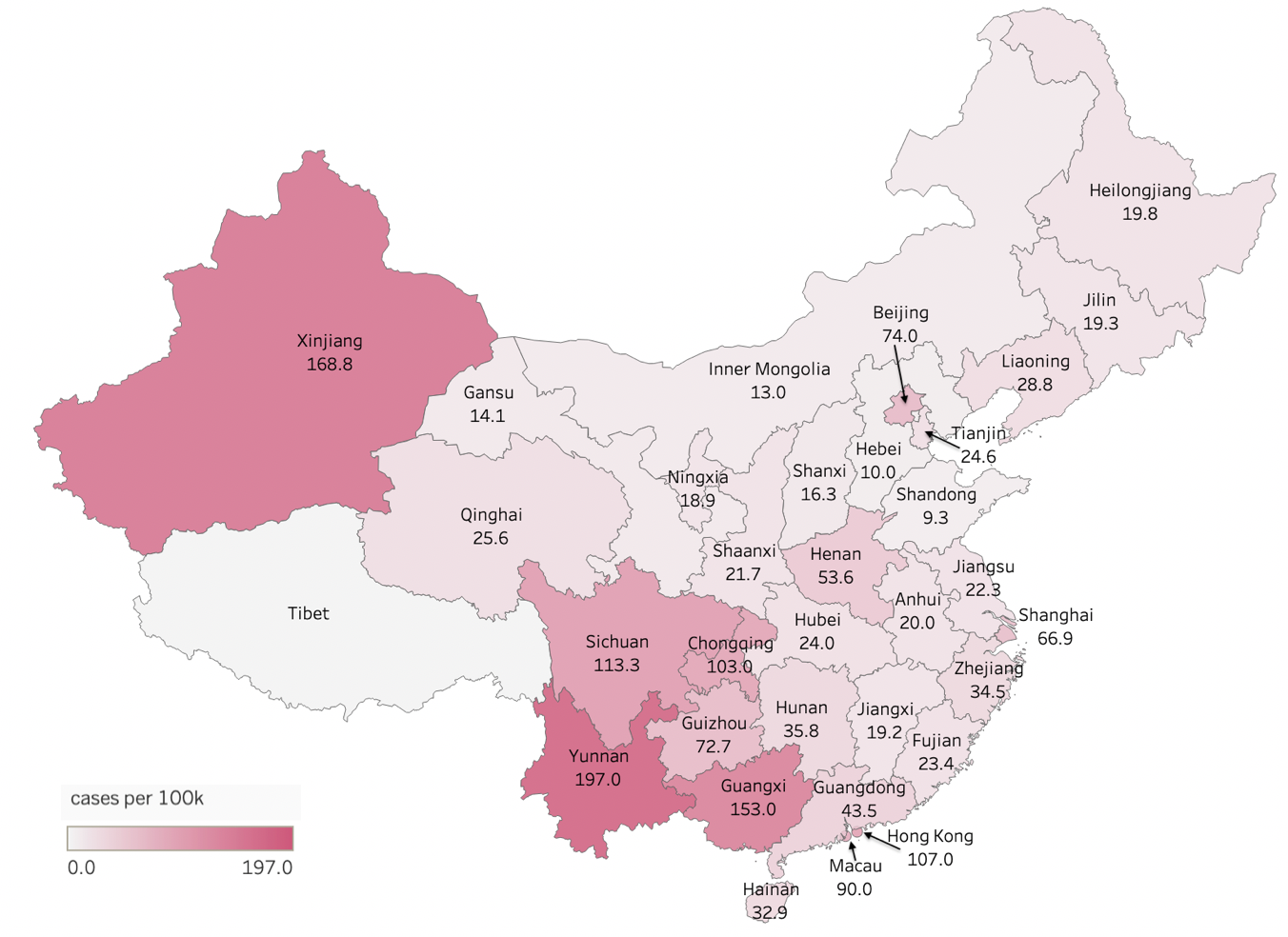 This chart is based on government data compiled in a Mandarin article "2015-2016年1-10月我国艾滋病感染人数、各省艾滋病人数比率、死亡人数及学生感染者男女性别比【图】" ["Jan-Oct 2016 Chinese AIDS infections, AIDS cases per province, deaths, and student infected male-female comparison (Image)"], compiled December 6, 2016 by China Industry Information Web [中国产业信息网], a data-based consultancy and research firm. Link